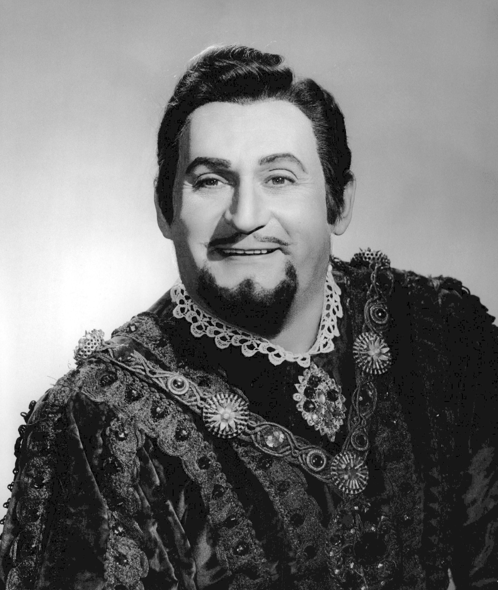 Publicity photo of Richard Tucker as the Duke in "Rigoletto".